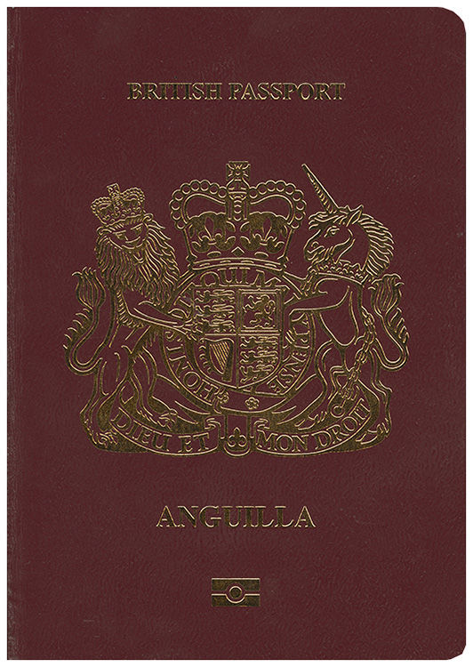 British passport (Anguilla)